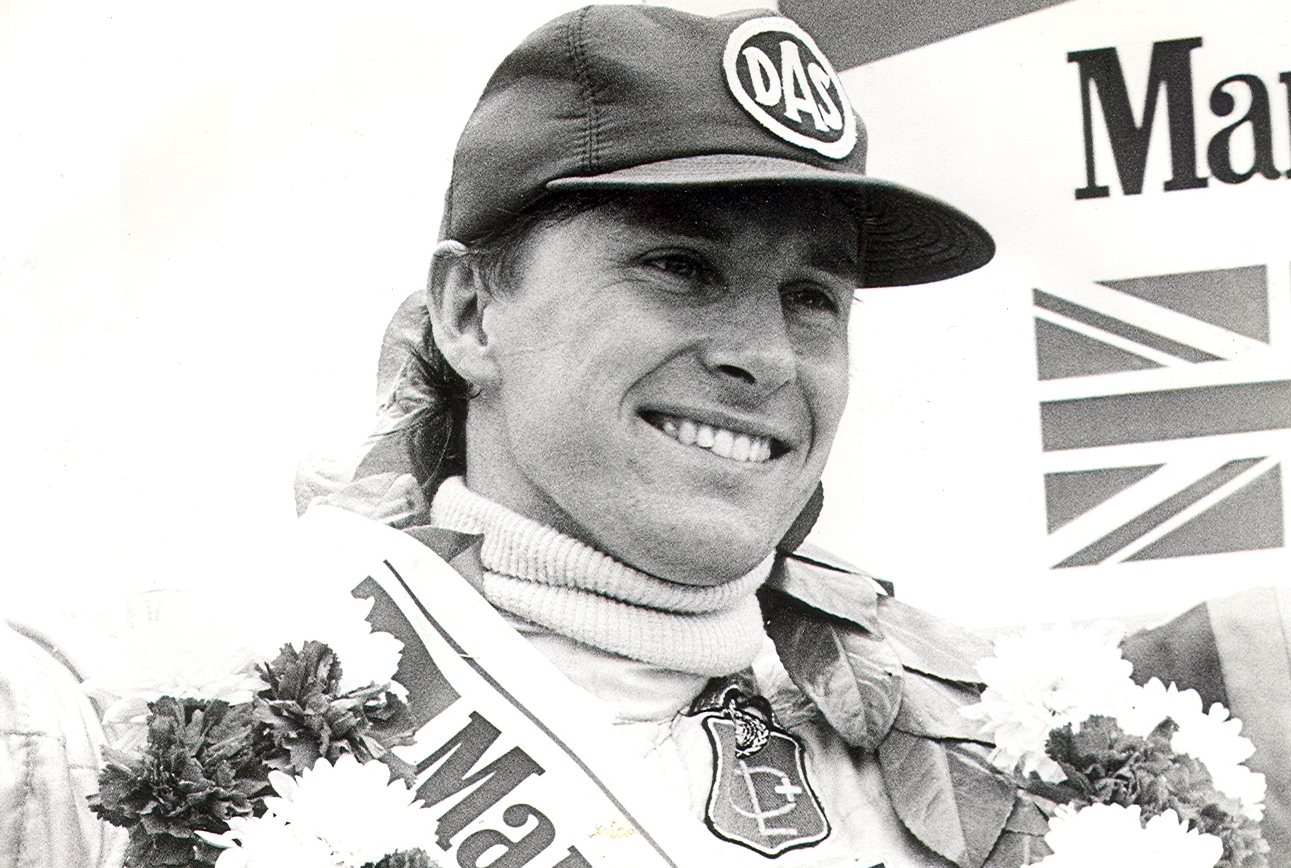 Mario Hytten, F3 race, Silverstone, 28th May 1984.